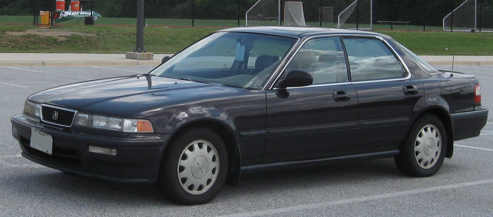 Acura Vigor photographed in College Park, Maryland, USA.